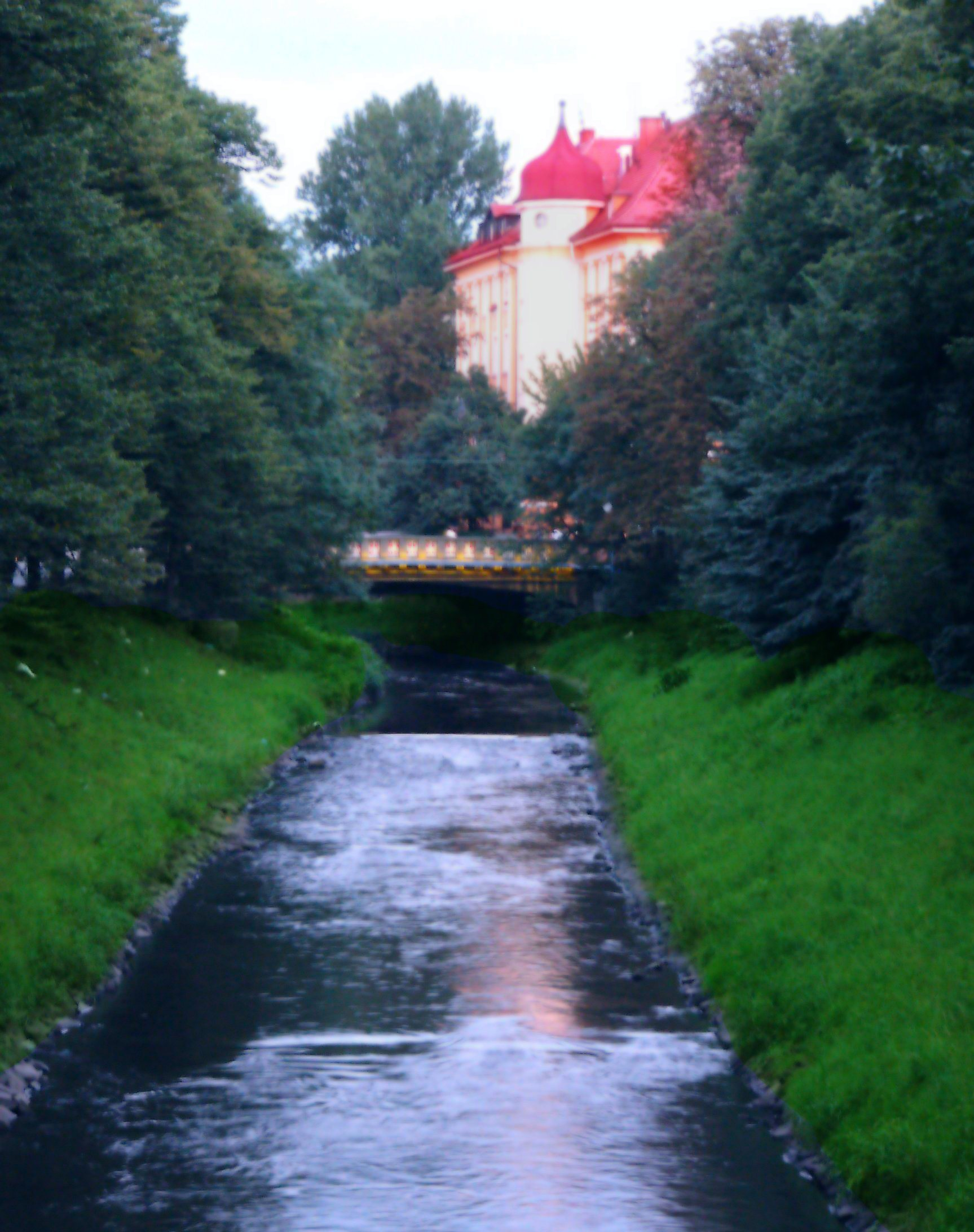 River Kłodnica in the city centre of Gliwice, Poland.